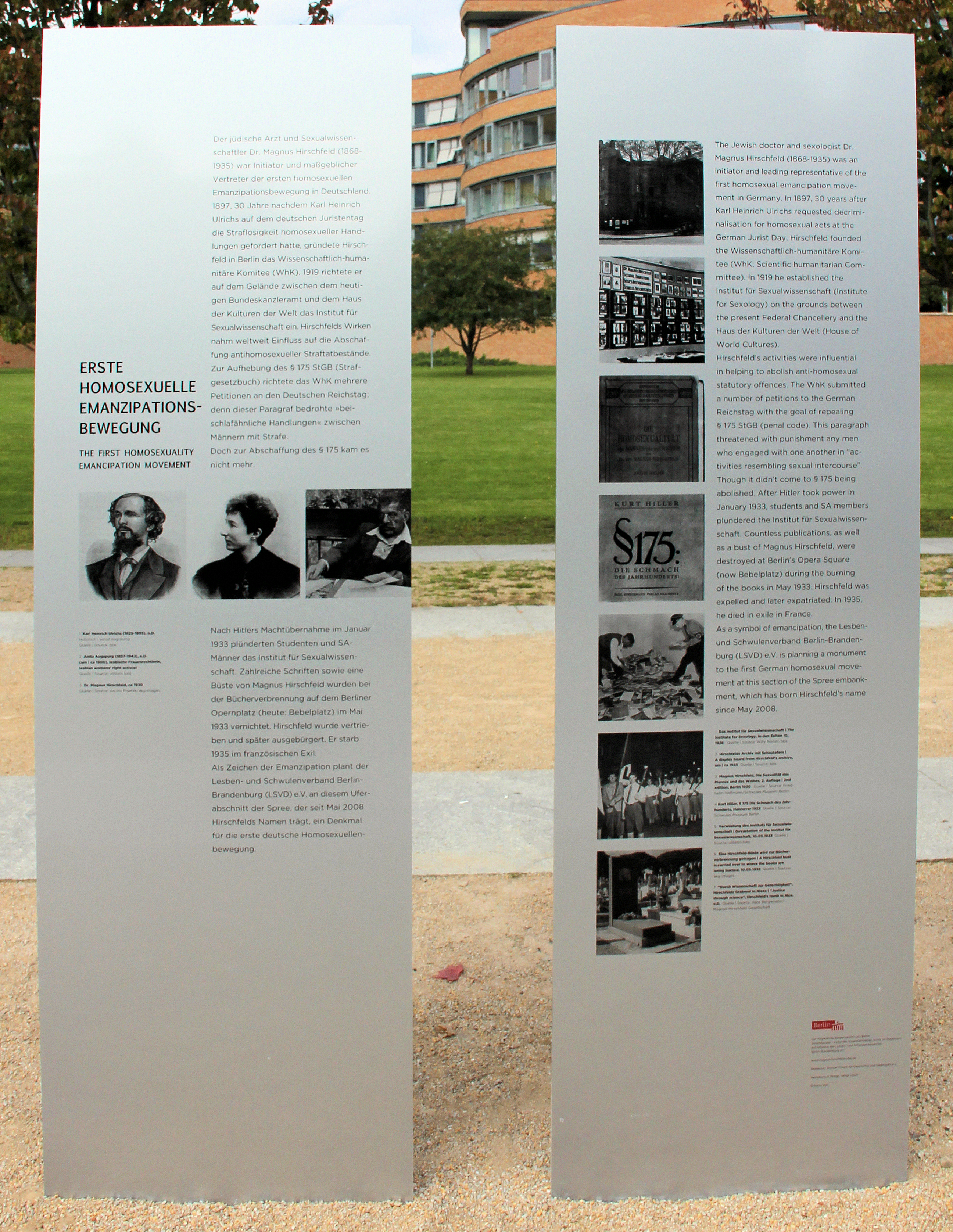 Memorial plaque, Erste Homosexuelle Emanzipationsbewegung, Magnus-Hirschfeld-Ufer, Berlin-Moabit, Germany